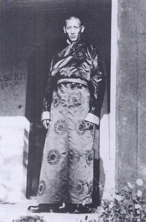 Kumbela in Kalimpong